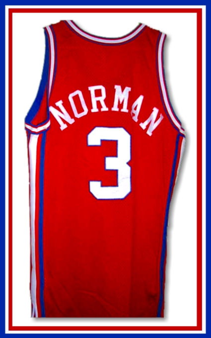 Ken Norman game worn Los Angeles Clippers away uniform from the 1991-92 season. The Clippers wore this style uniforms from 1988-2001. This authentic jersey is made by Champion. The photograph was taken from my sports memorabilia collection with a Nikon Coolpix e3200 digital camera and edited using ArcSoft PhotoStudio 5.5